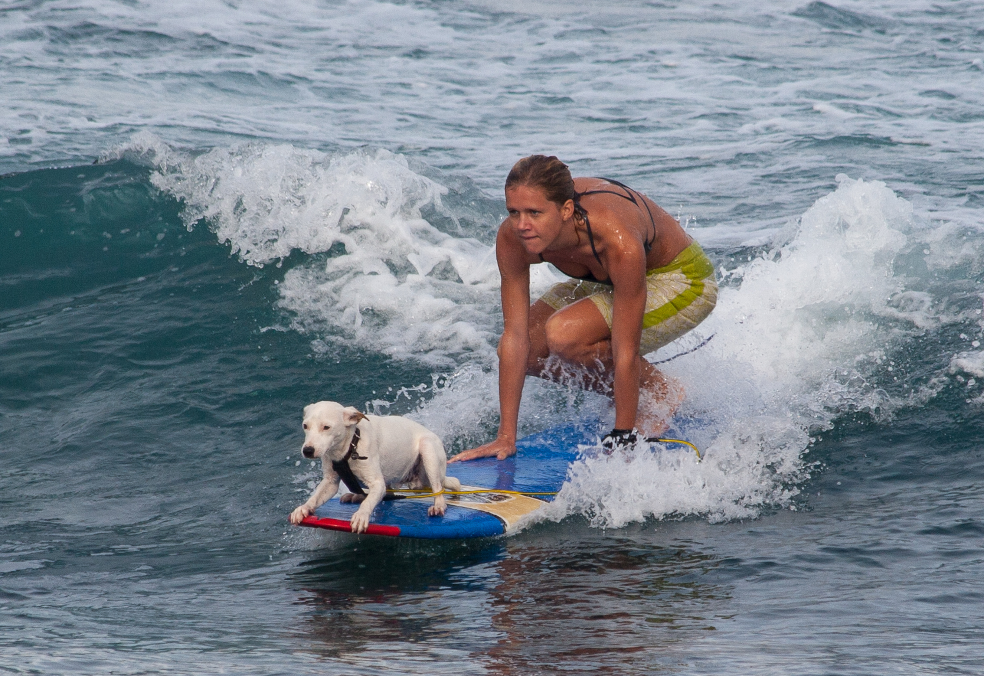 A dog surfing in Maui